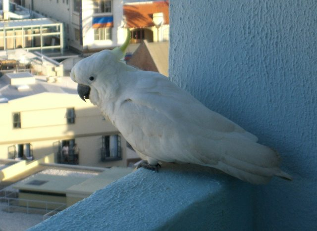 White cockatoo in Manly, Australia